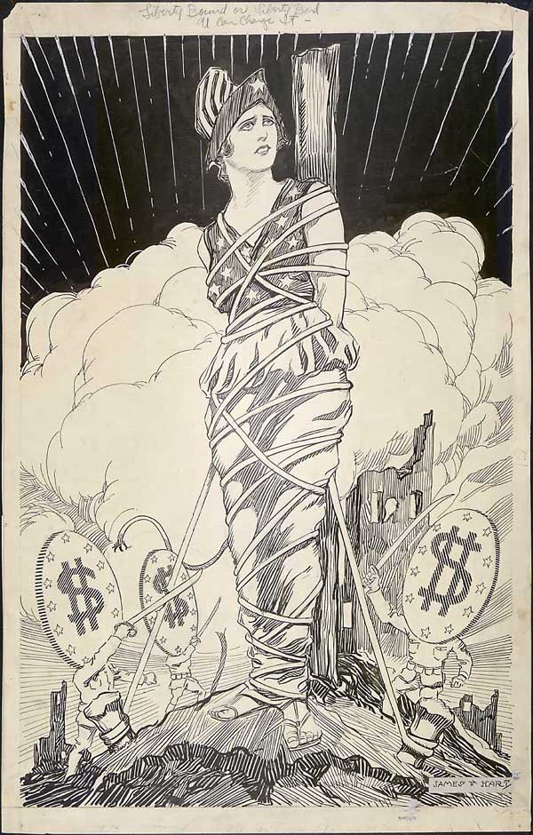 "Liberty Bound or Liberty Bond? U Can Change It" Design for poster promoting sale of Liberty Bonds to finance USA government World War I effort. By James Hart, ca. 1917-18. Ink over pencil on paper. Original is 26" x 16 1/2". Artwork shows Columbia tied to a stake while figures with heads of dollar coins cut her bonds with swords; background shows ruined building and smoke.